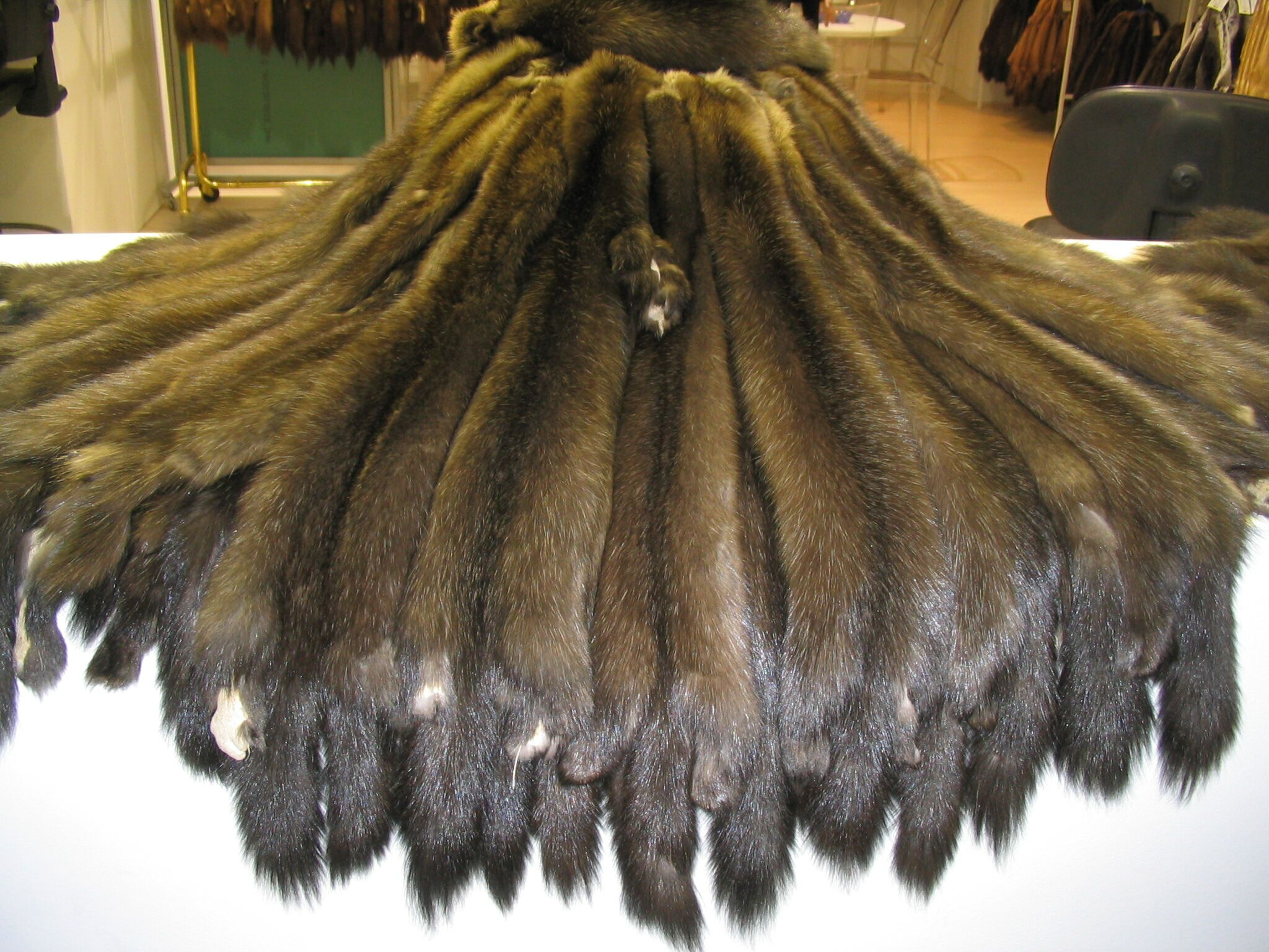 Bargusinsky sable fur-skins